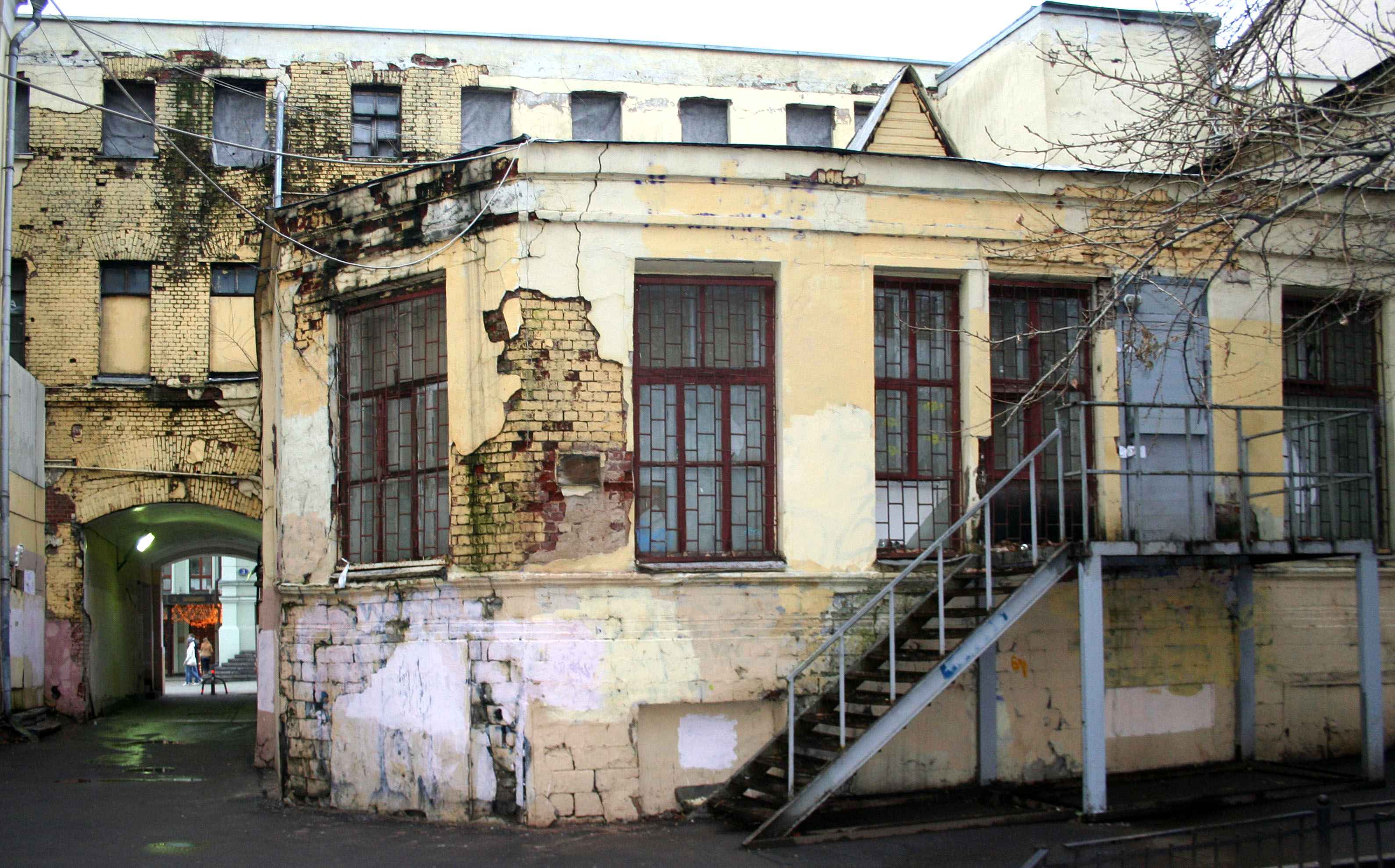 Kamergersky Lane, 4